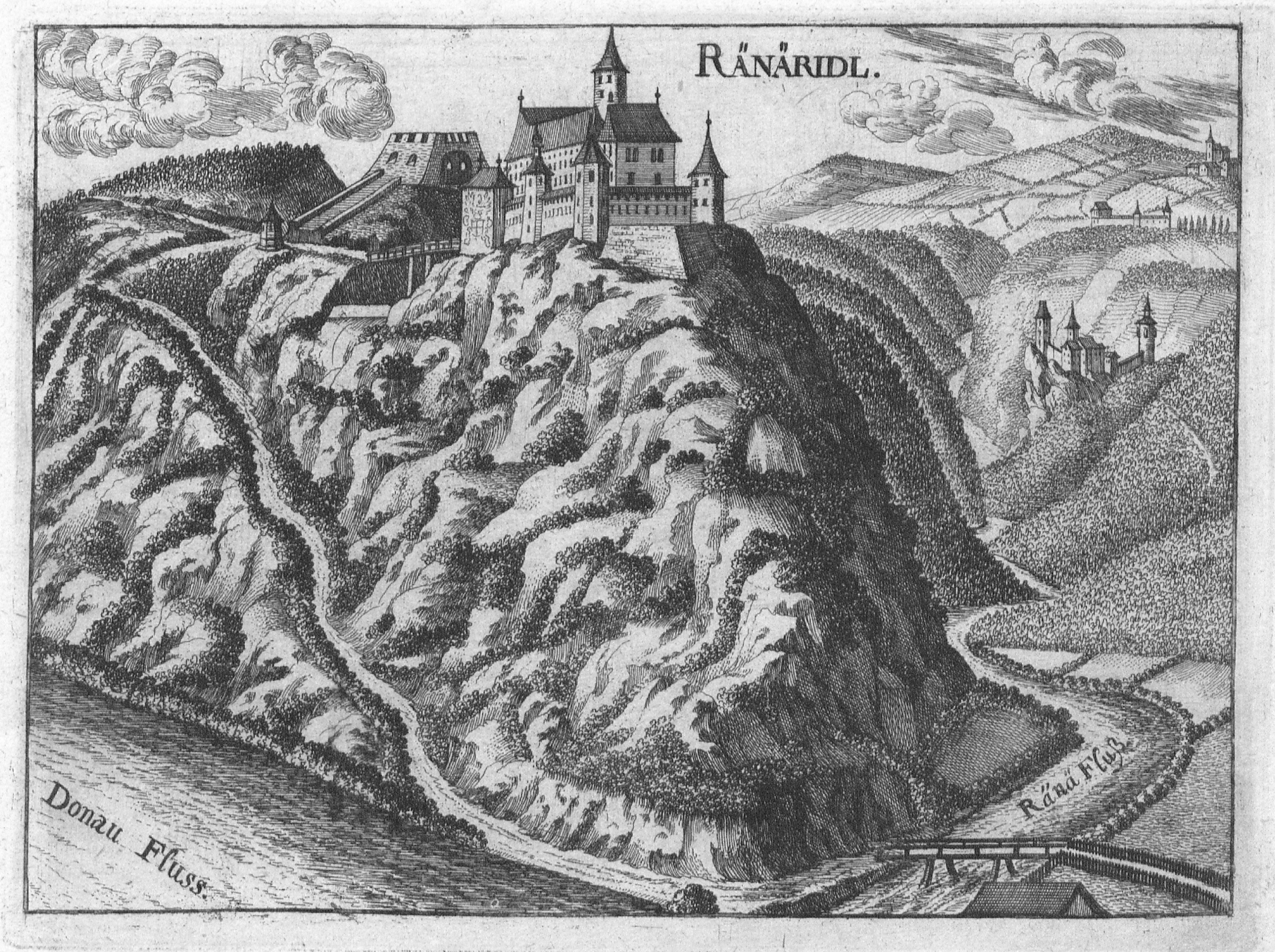 Castle Rannariedl in Upper Austria, drawing from M. Vischer 1674